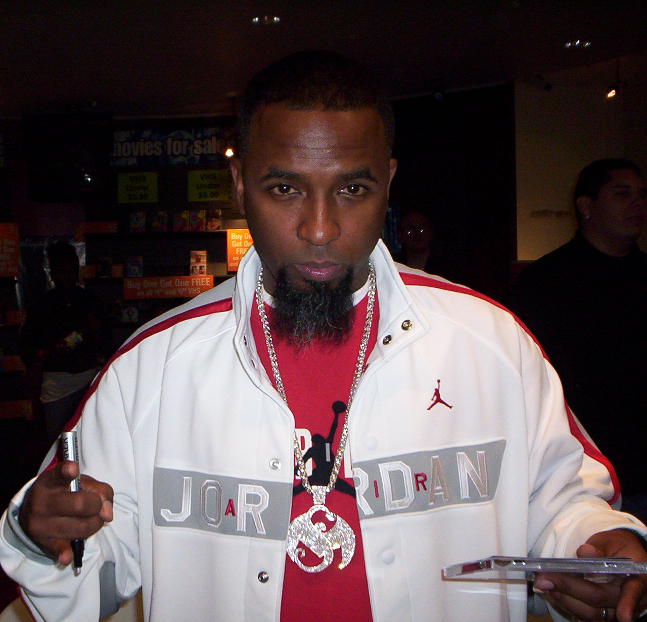 Photo taken of Kansas City rapper Tech N9ne at his in-store release signing of his album Everready: The Religion at Warehouse Music in Independence, Missouri.